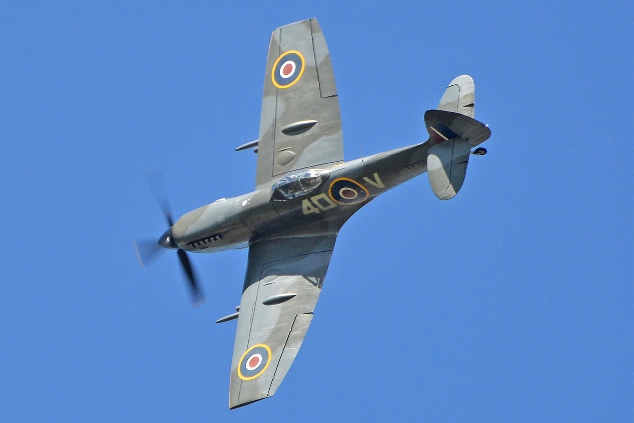 c/n CBAF.IX4497. Having spent some 30 years being roaded around the country to shows and events by the RAF Exhibition Flight, few would have ever expected to see this Spit fly again. But here she is in all her glory!! Restored here at Coningsby, initially by volunteers, she is now operated as part of the RAF Battle of Britain Memorial Flight (BBMF). She wears the markings of a 74sqn aeroplane (TB675) which was the personal aircraft of Squadron Leader AJ ‘Tony’ Reeves DFC, the Squadron’s Commanding Officer from the end of December 1944. She is seen during a practice display at her home base, RAF Coningsby, Lincs, UK. 20-4-2016